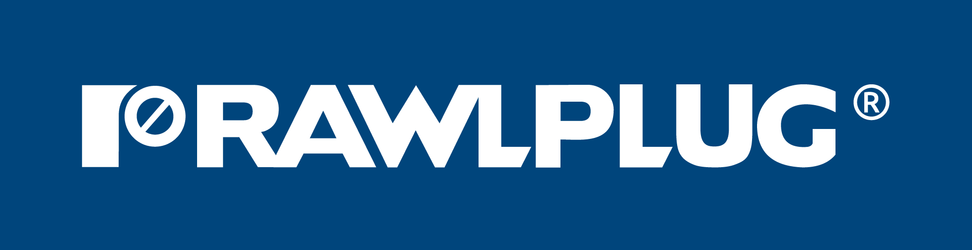 Rawlplug logo modern